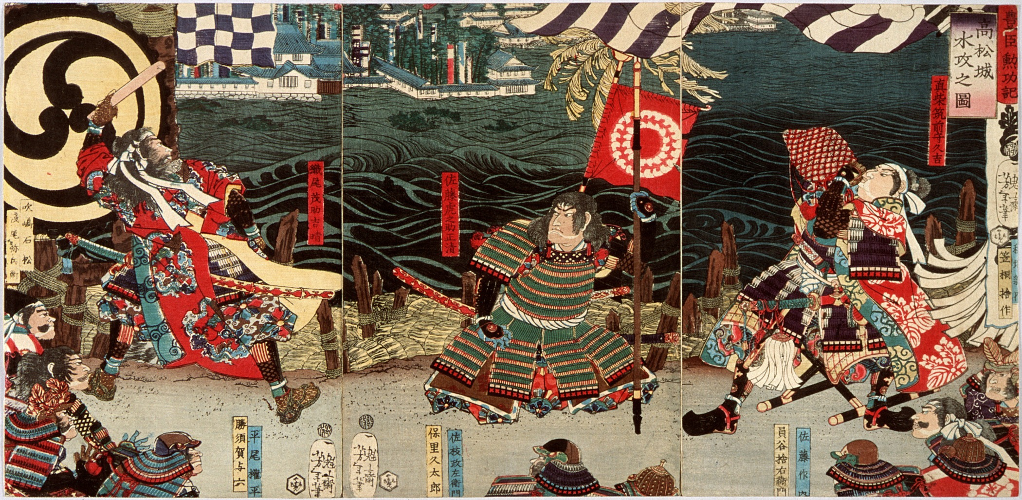 Japan, 1/1867 Series: Chronicles of the Toyotomi Clan Prints; woodcuts Triptych; color woodblock print Herbert R. Cole Collection (M.84.31.323a-c) Japanese Art